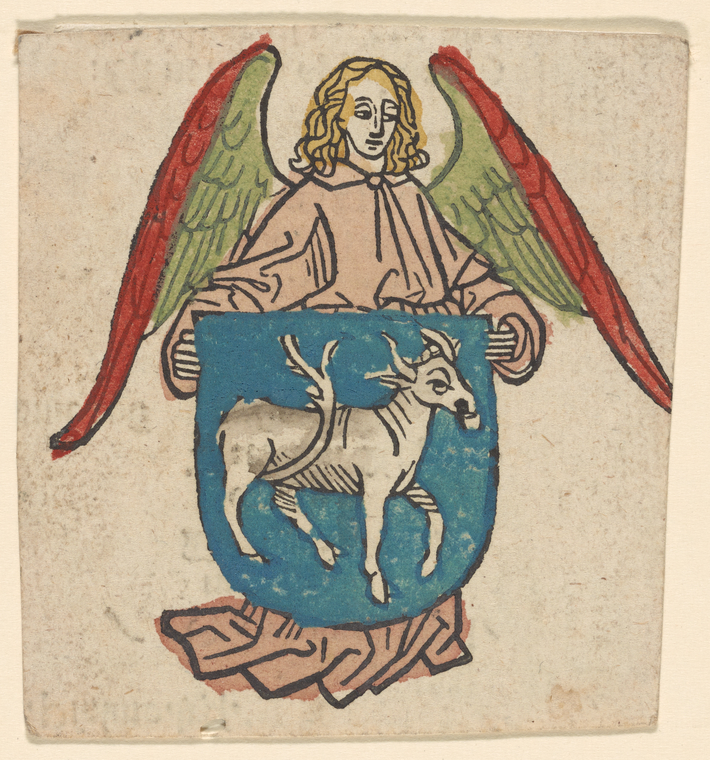 Bookplate of Hilprand Brandenburg de Bibrach, in New York Public Library